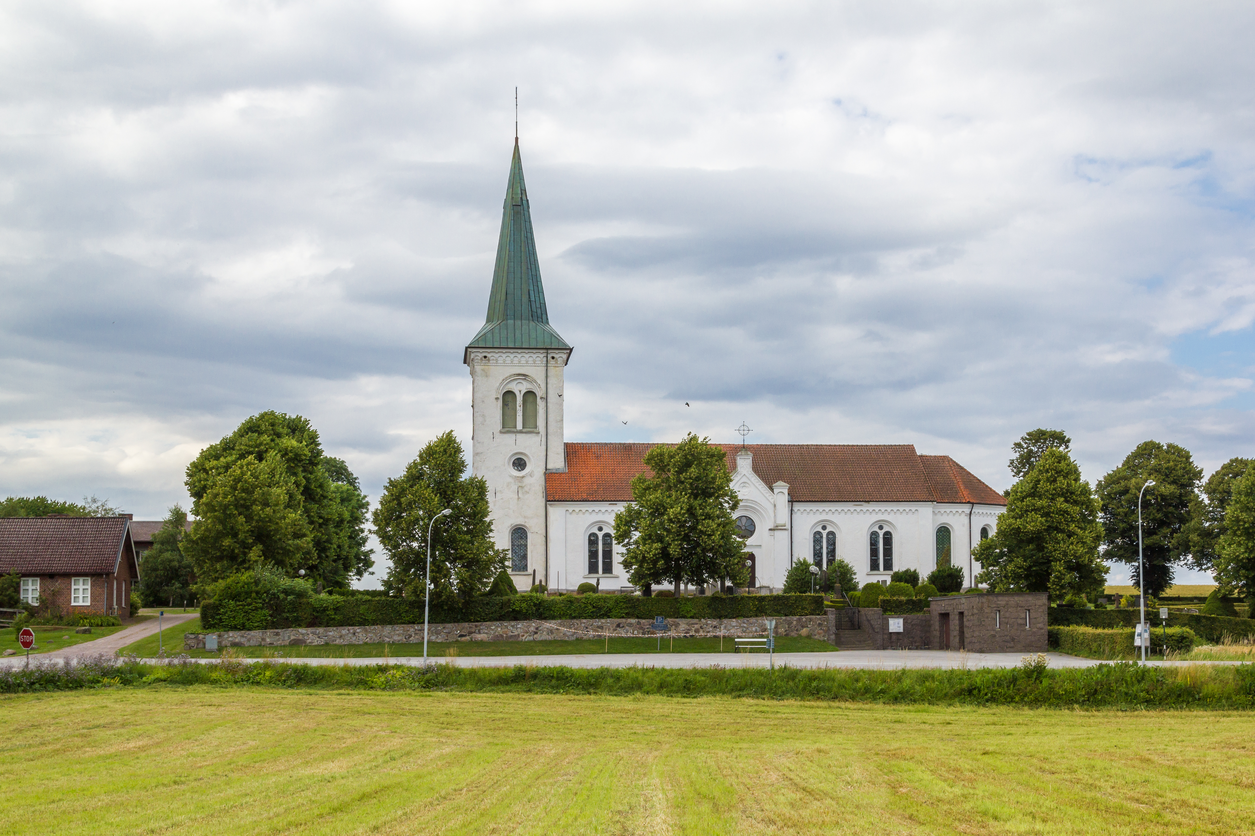 Ask church, Kågeröd-Röstånga parish, Svalöv Municipality, Scania